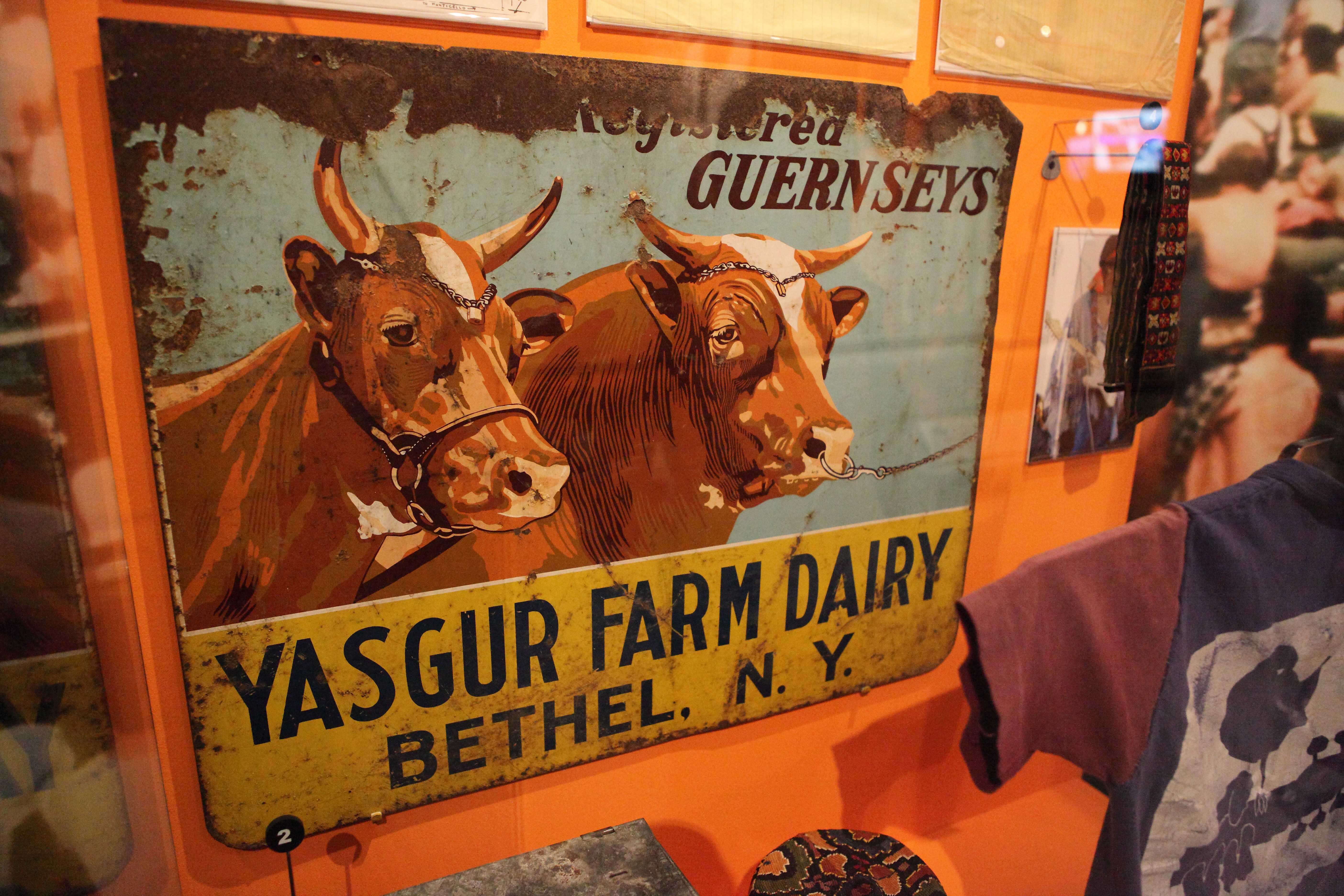 Yasgur Farm Dairy sign at the Rock and Roll Hall of Fame in Cleveland, Ohio. Flickr Tags: Rock and Roll Hall of Fame Cleveland Ohio Cows sign Bethel, New York Yasgur Farm Dairy. from Flickr album "Rock and Roll Hall of Fame" by Sam Howzit